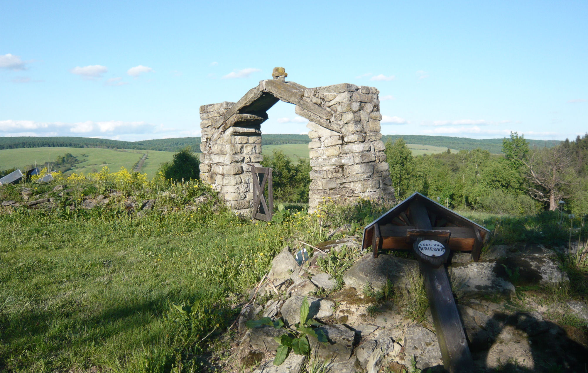 I WW Cemetery in Grab Poland